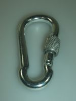 Firemens Carabiner